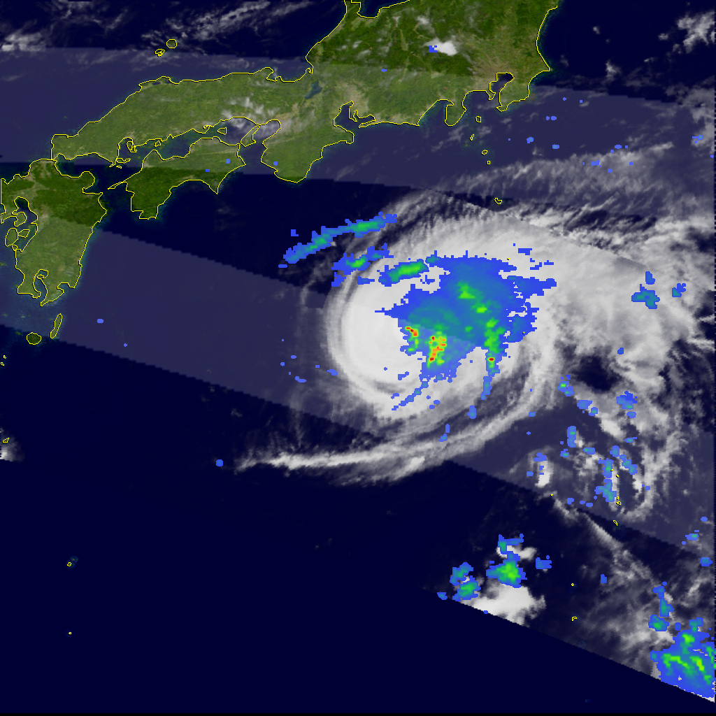 Typhoon Maria formed on August 5, building to tropical storm strength and earning a name during the next day. By early August 7, the storm became powerful enough to be upgraded again to the status of typhoon (the term for tropical cyclones in the western Pacific). Maria had reached Category 1 strength on the Saffir-Simpson scale as it approached the island of Honshu in Japan, but it was expected to weaken back to tropical-storm status before making landfall. This image was made from data acquired by the Tropical Rainfall Measuring Mission satellite (TRMM) at 1:32 p.m. local time (05:32 UTC) on August 7, 2006, as Maria was heading towards Honshu. The image shows the rain intensity within Typhoon Maria. Rain rates in the center swath are from the TRMM Precipitation Radar, and rain rates in the outer swath are from the TRMM Microwave Imager. The rain rates are overlaid on infrared data from the TRMM Visible Infrared Scanner. The rain field was fairly compact and shows patches of intense rain (red) along the eyewall. At the time of this image, Maria had just reached typhoon status, with maximum sustained winds reported at 120 kilometers per hour (75 miles per hour) by the Joint Typhoon Warning Center. The Tropical Rainfall Measuring Mission (TRMM) satellite was placed into service in November of 1997. From its low-earth orbit, TRMM has been providing valuable images and information on storm systems around the tropics using a combination of passive microwave and active radar sensors, including the first precipitation radar in space. TRMM is a joint mission between NASA and the Japanese space agency, JAXA.